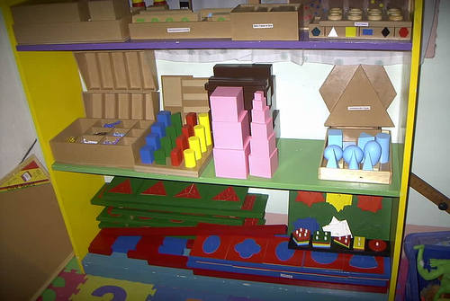 Materials used in Motessori classesMontessori Materials